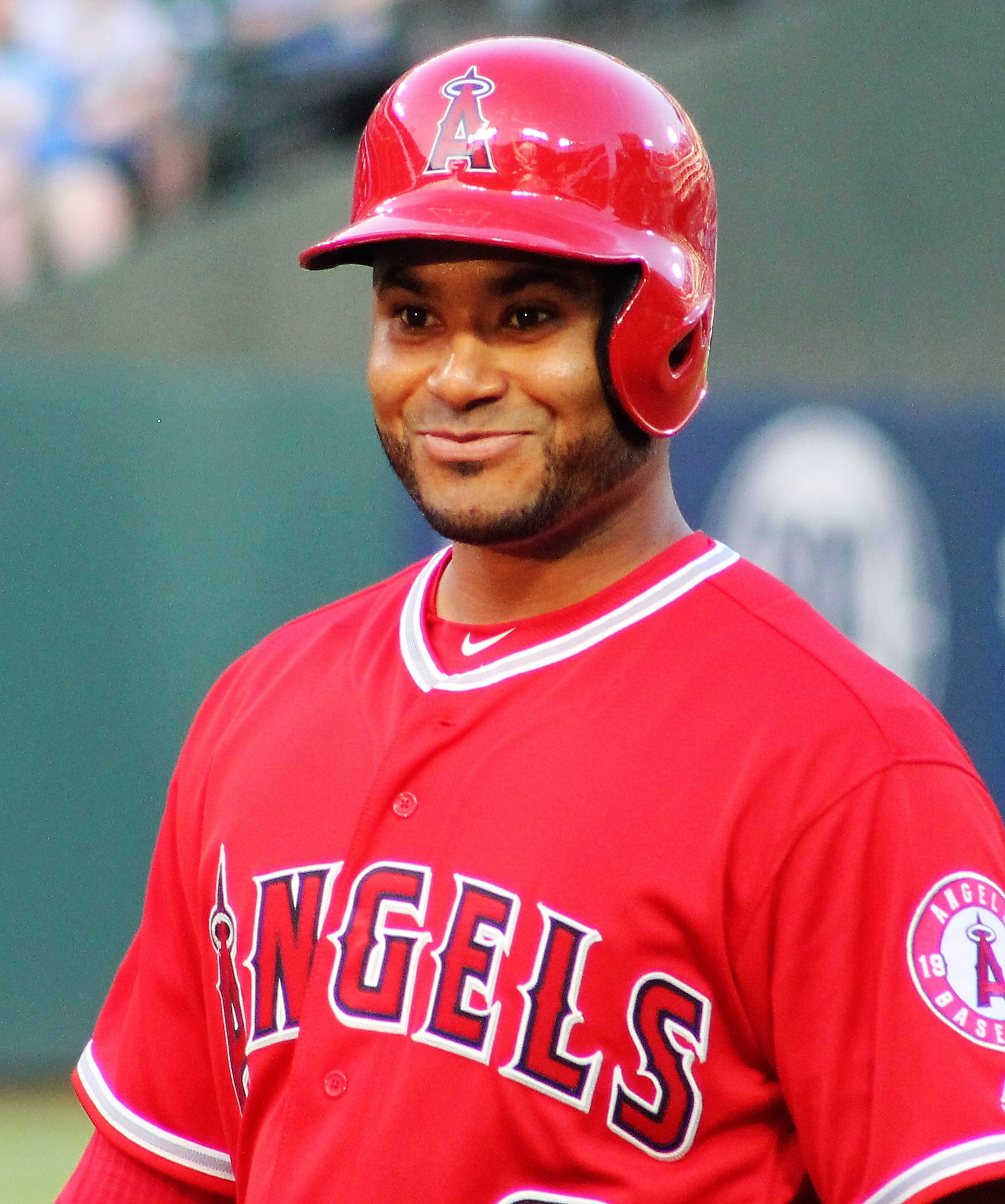 Professional baseball player Gregorio Petit during a game in Texas in May 2016.